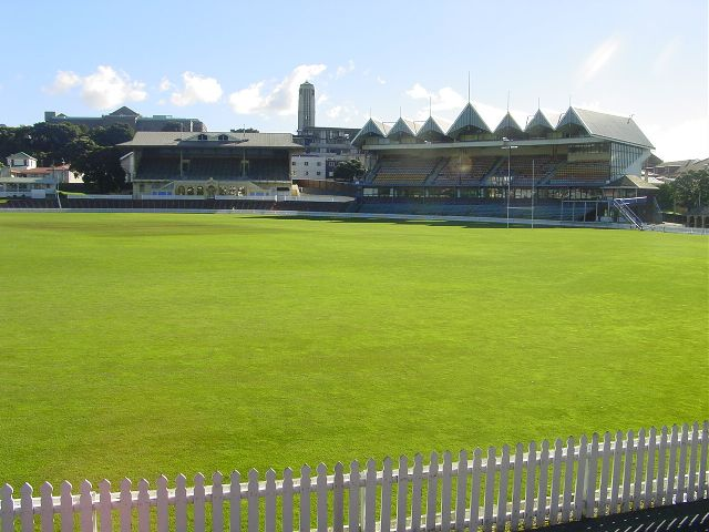 Basin Reserve, Wellington, New Zealand